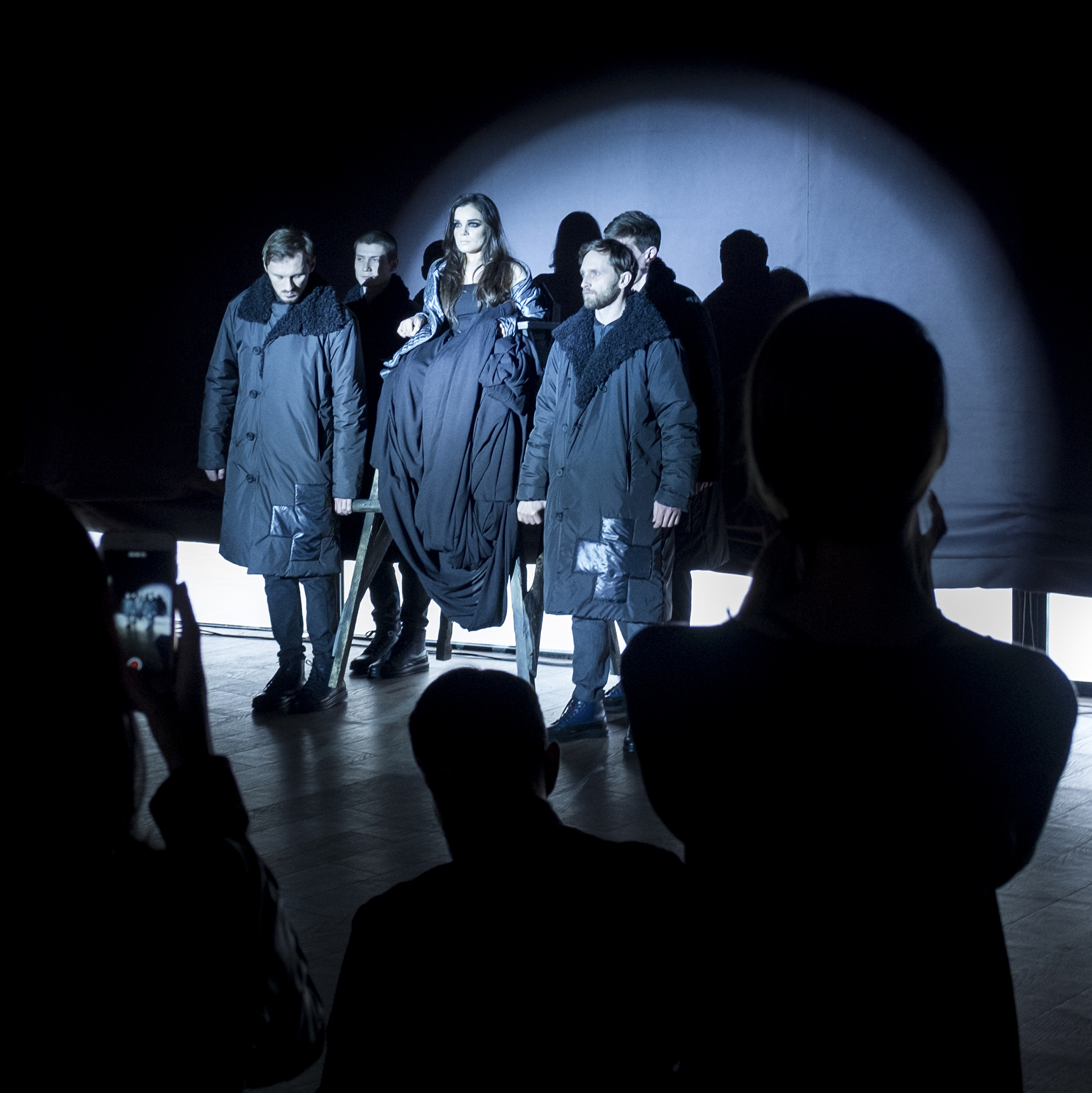 Alexandra Kutas on Fedor Vozianov runway show VIY 2017 by Uly Pashkova